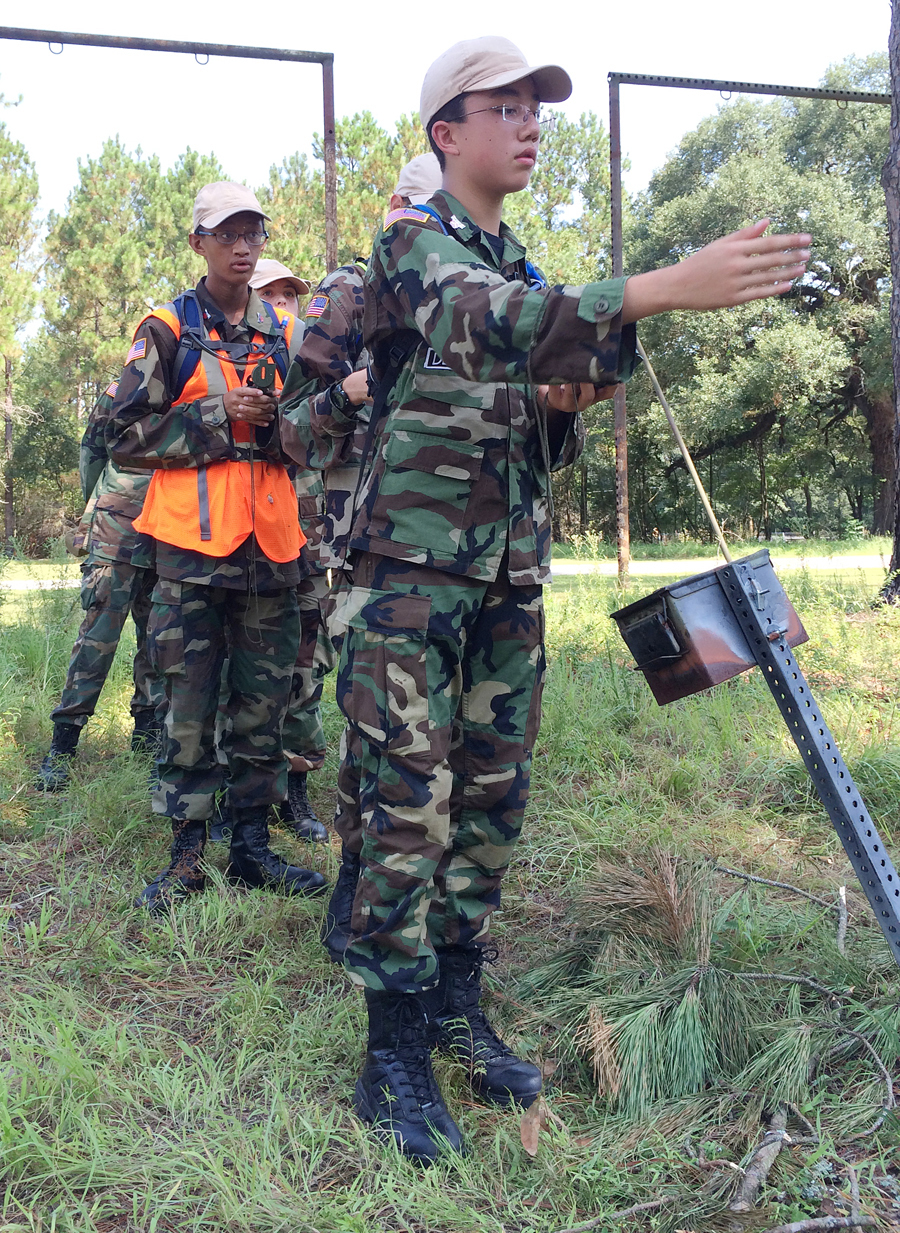 Cadet Airmen First Class Blake Jones, Echo Flight, Squadron 2, Georgia Wing Civil Air Patrol, points his team in the direction to find their next objective during land navigation training, July 22. This is the fourth year the Georgia Wing CAP has conducted its weeklong summer encampment at Marine Corps Logistics Base Albany.